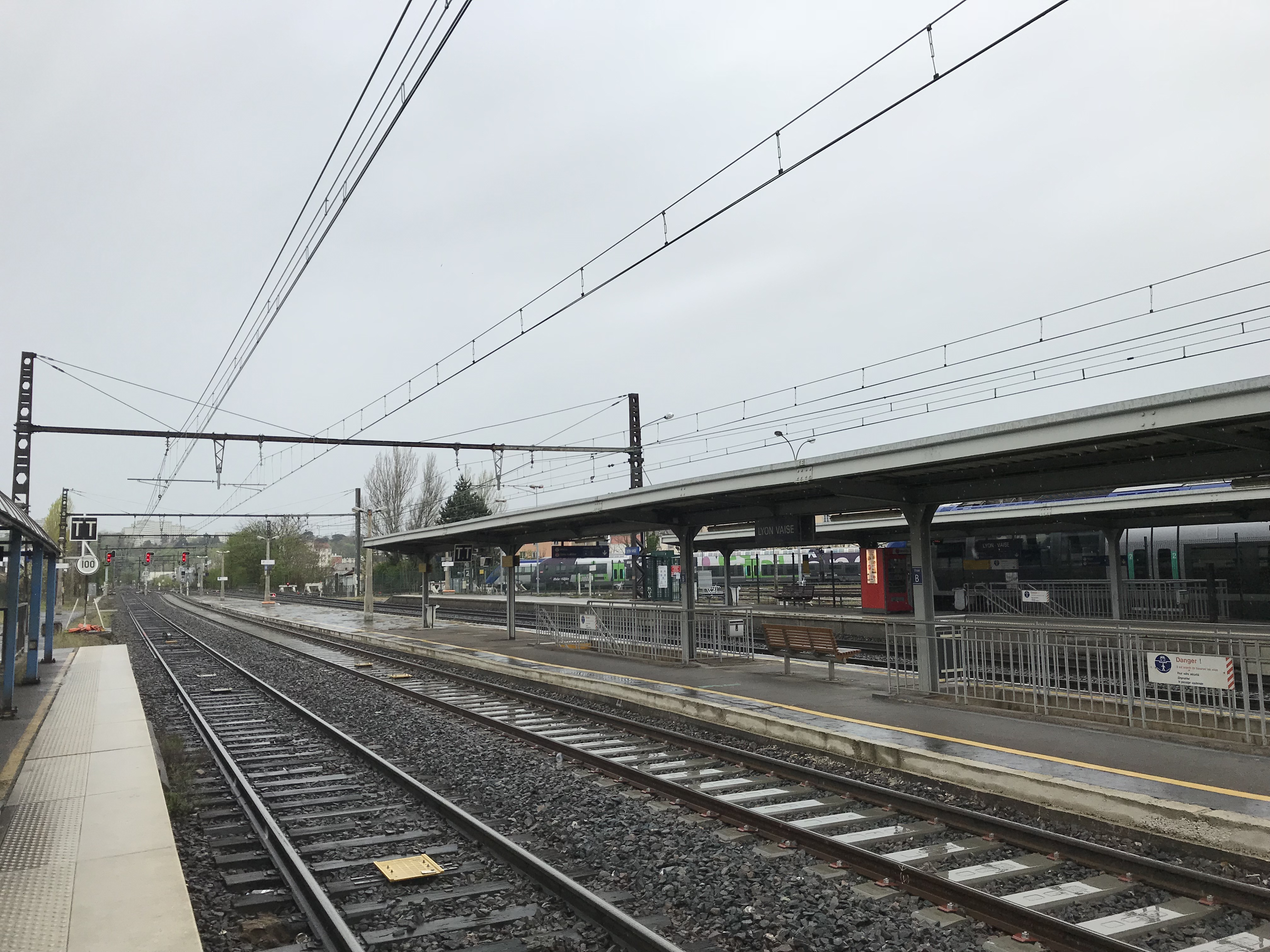 le quai de la gare de Lyon-Vaise en 2018